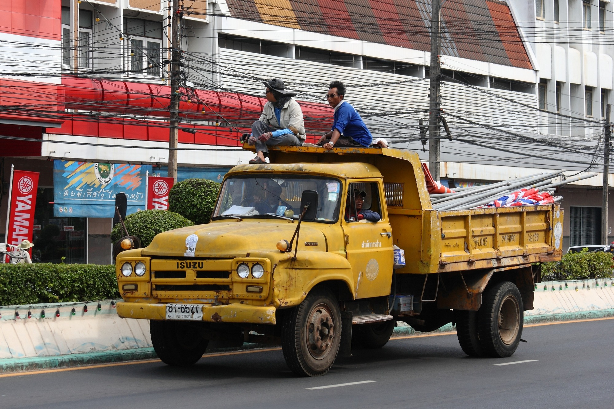 Old Isuzu truck(Isuzu TX) with workers sitting on top of it in Ubon Ratchathani, Thailand